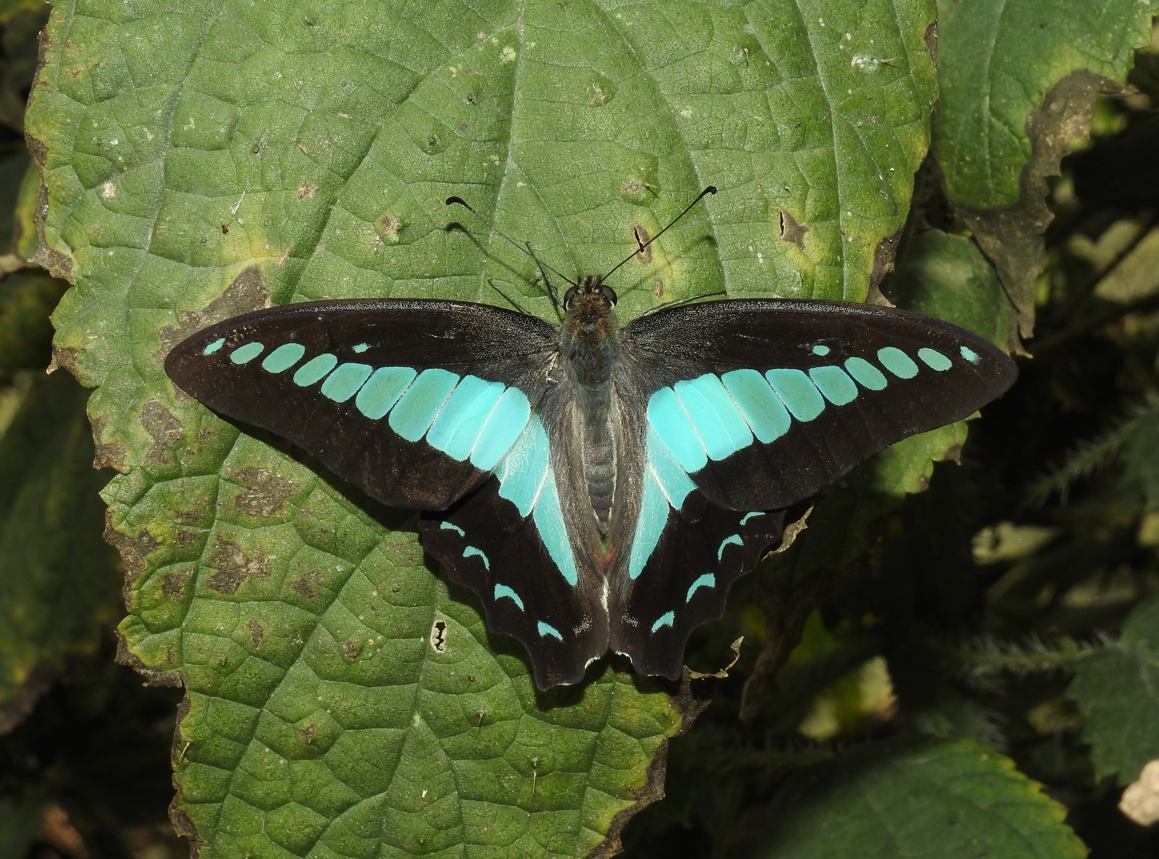 Photographed by Dr. Raju Kasambe in Nainital district, Uttarakhand, India. Common Bluebottle Graphium sarpedon